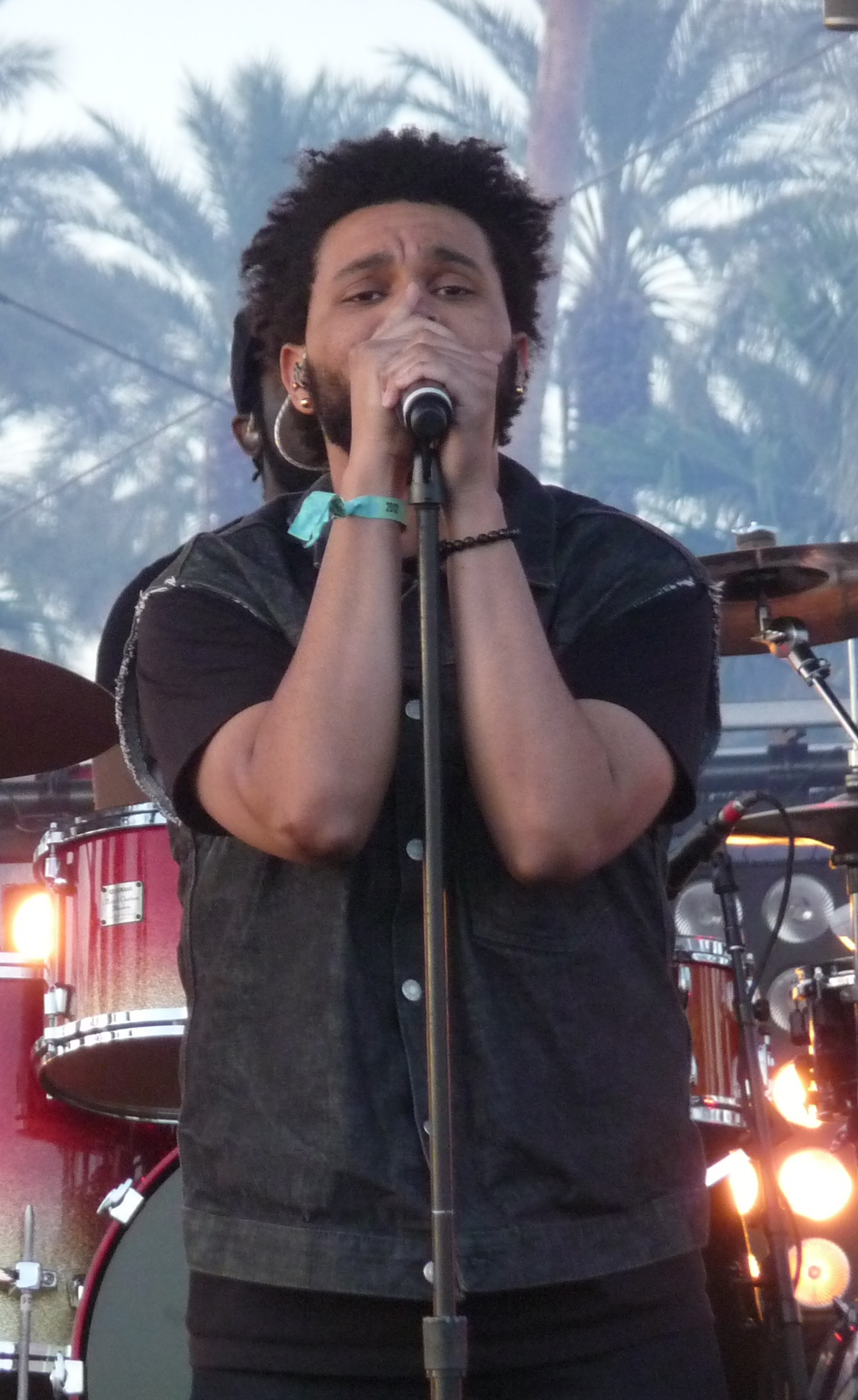 Front shot of The Weeknd at 2012 Coachella